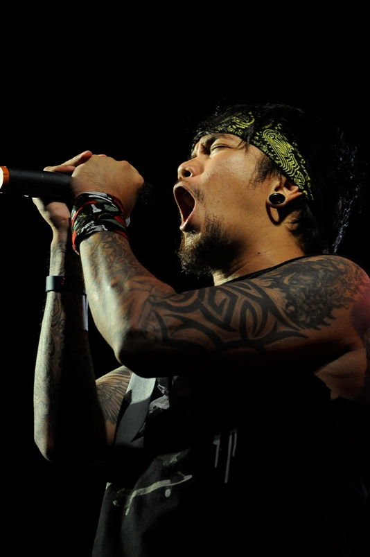 © Francis Sacil-Espina 2011